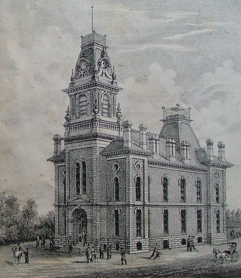 Drawing of the courthouse in Williamsport, Warren County, Indiana from an 1877 atlas